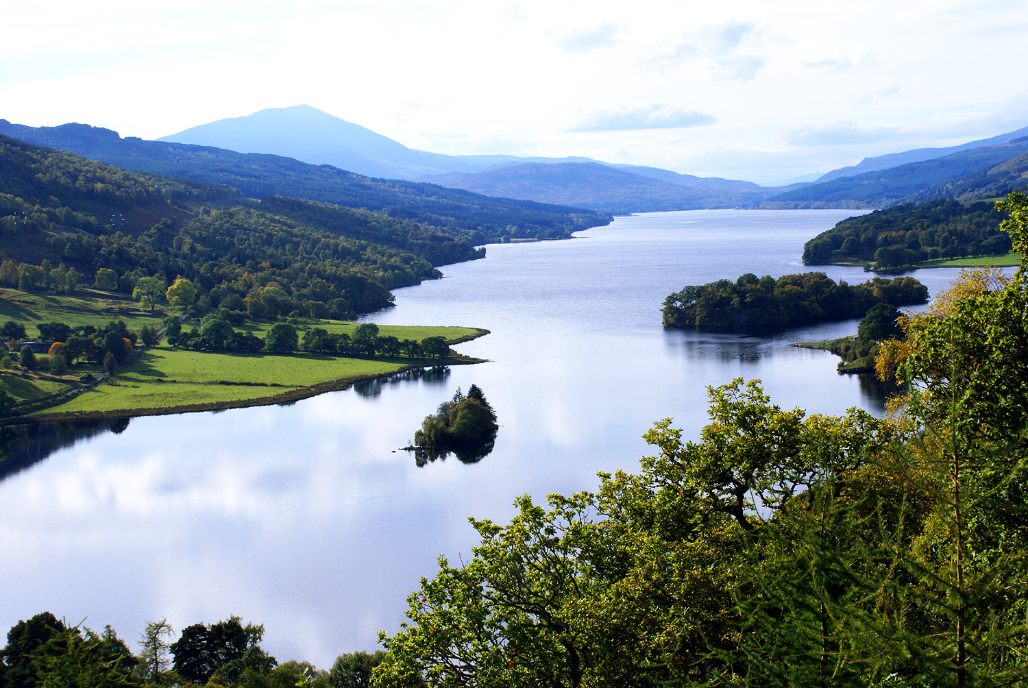 View from Queens View of Loch Tummel